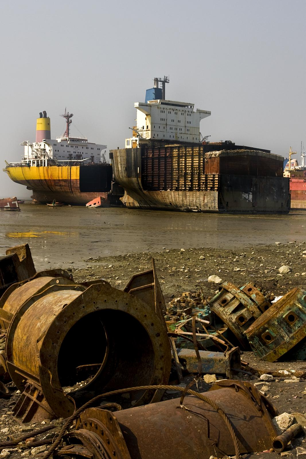 Shipbreaking near Chittagong